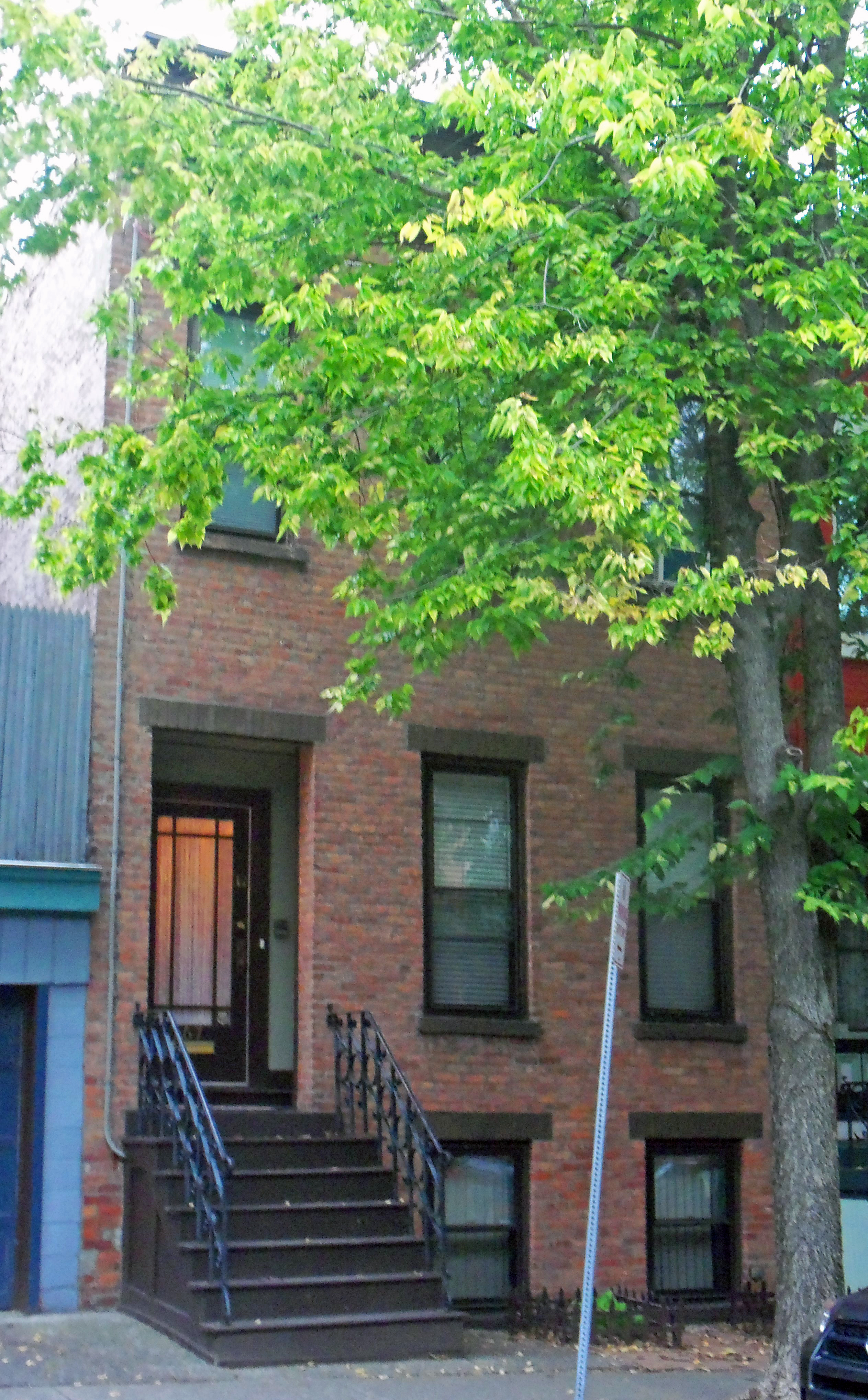 House at 67 Dove Street, Albany, NY, USA. A contributing property to the Center Square/Hudson–Park Historic District and the place where gangster Legs Diamond was murdered in 1931.